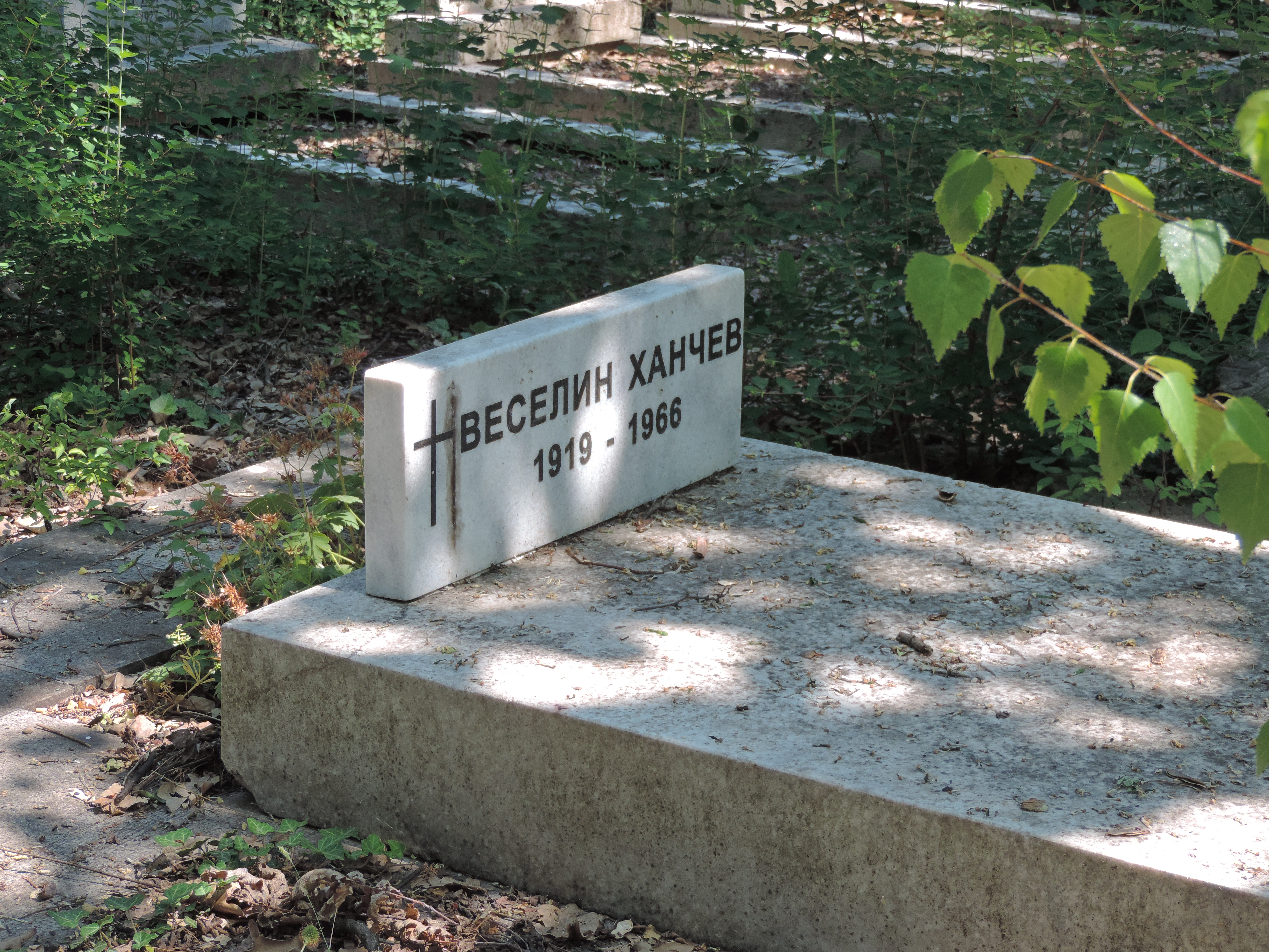 Central Sofia Cemetery